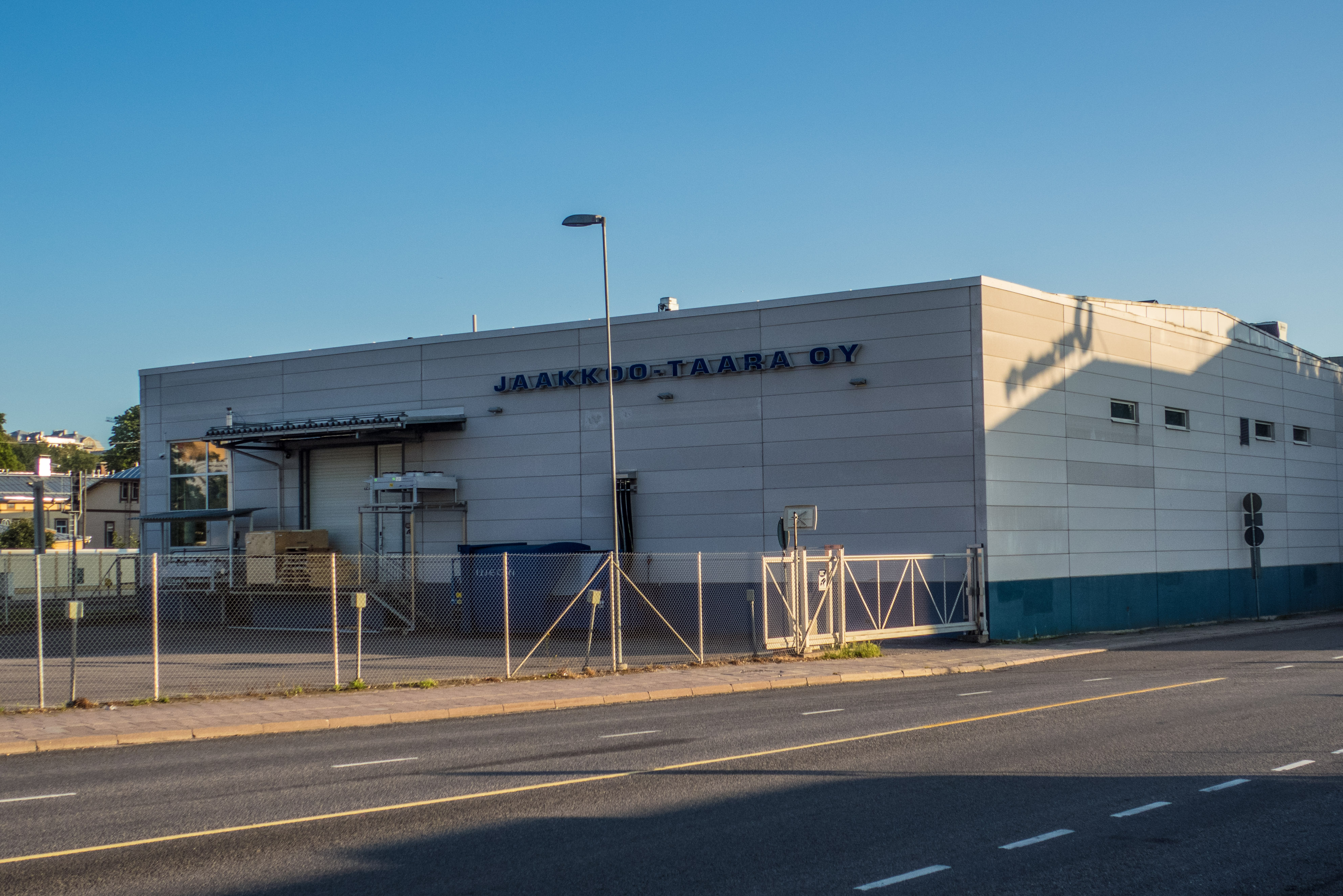 Manufacturer of printed cardboard packaging, Ruissalontie, Turku, Finland. Building apparently made of Siporex light concrete.